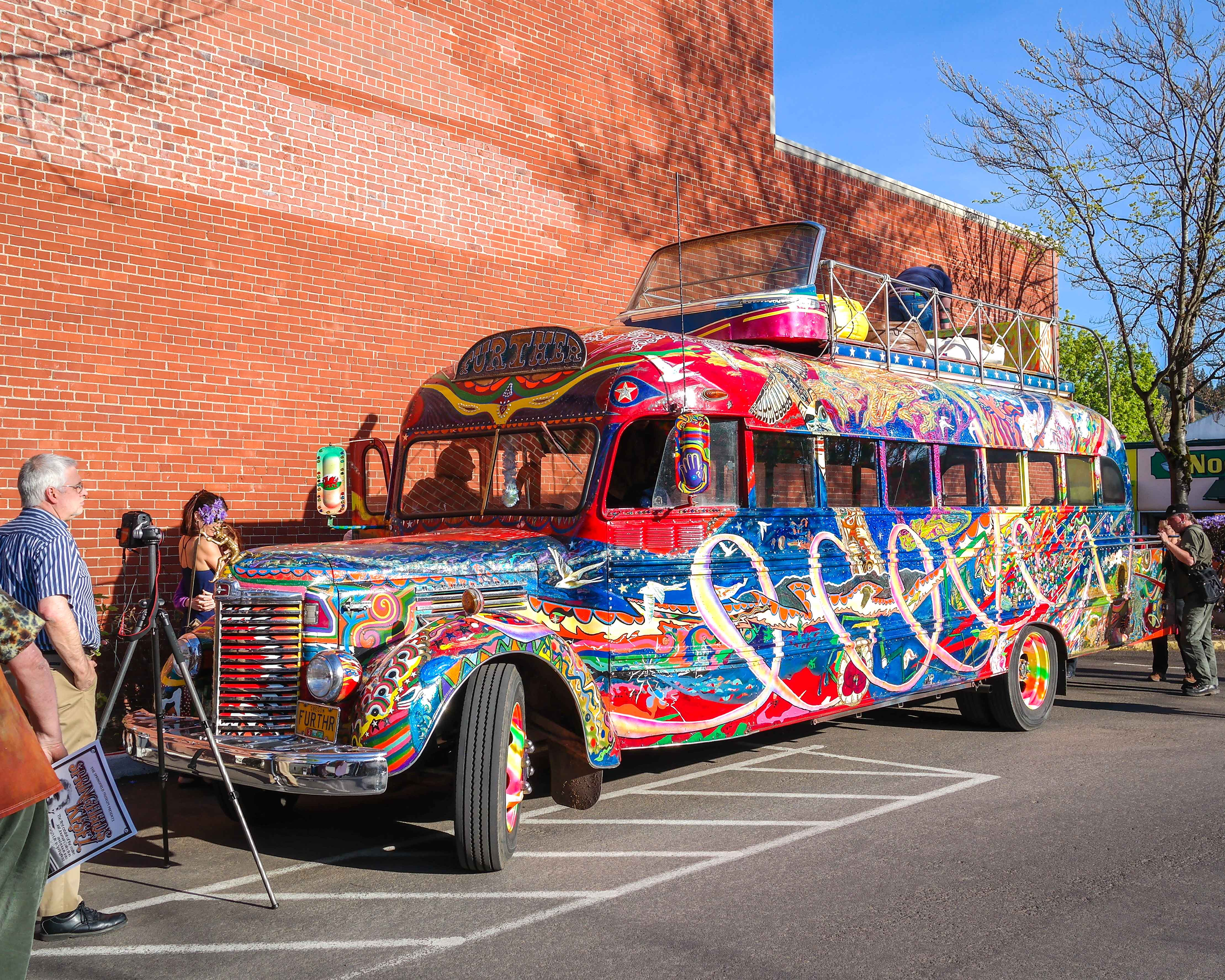 The current incarnation of Ken Kesey's bus, Further, photographed at the Springfield's Kesey exhibit in Springfield, Oregon